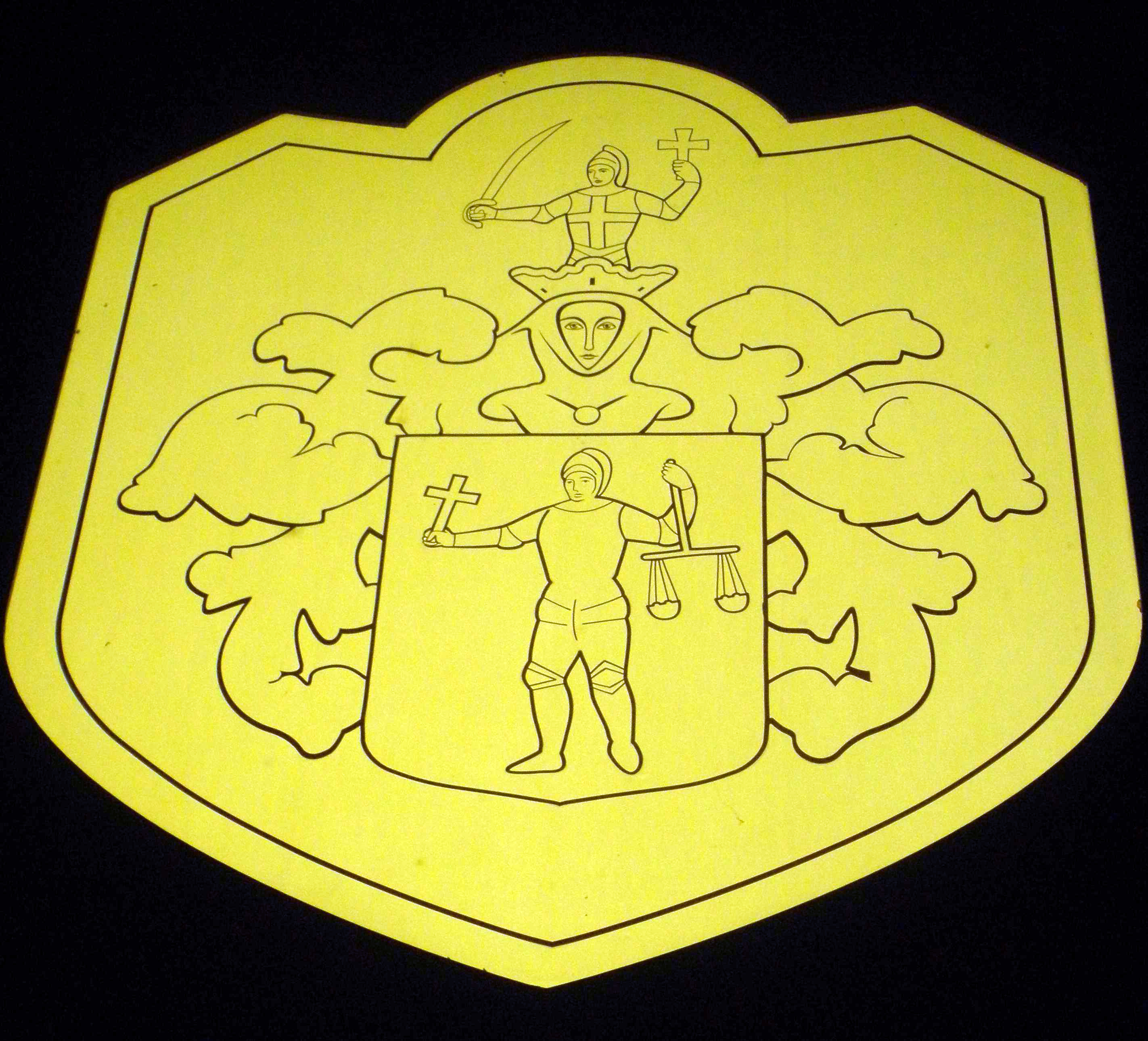 Blazon of Ečka, family of count Lazar